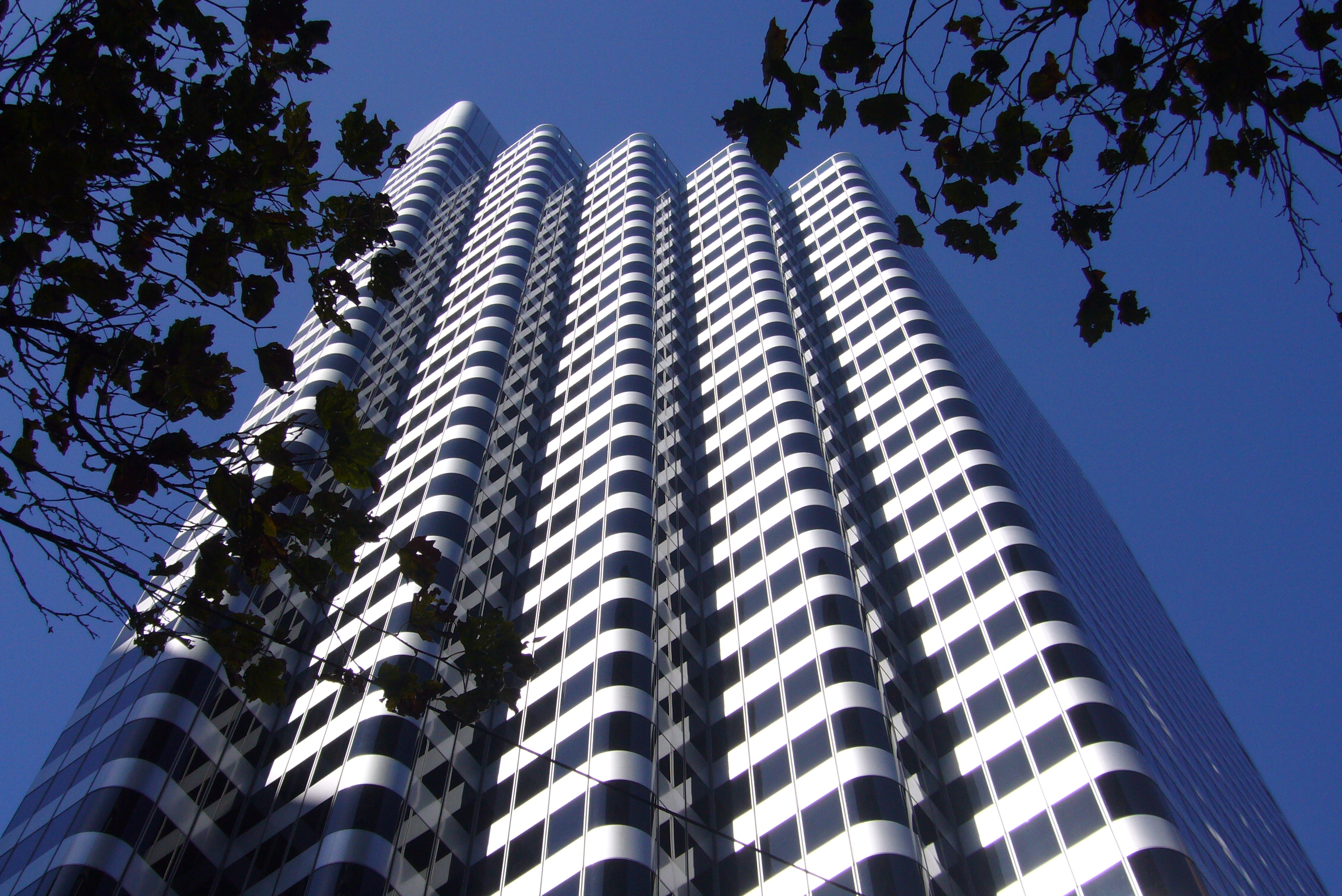 Shaklee Terraces (444 Market Street), from One Front Street